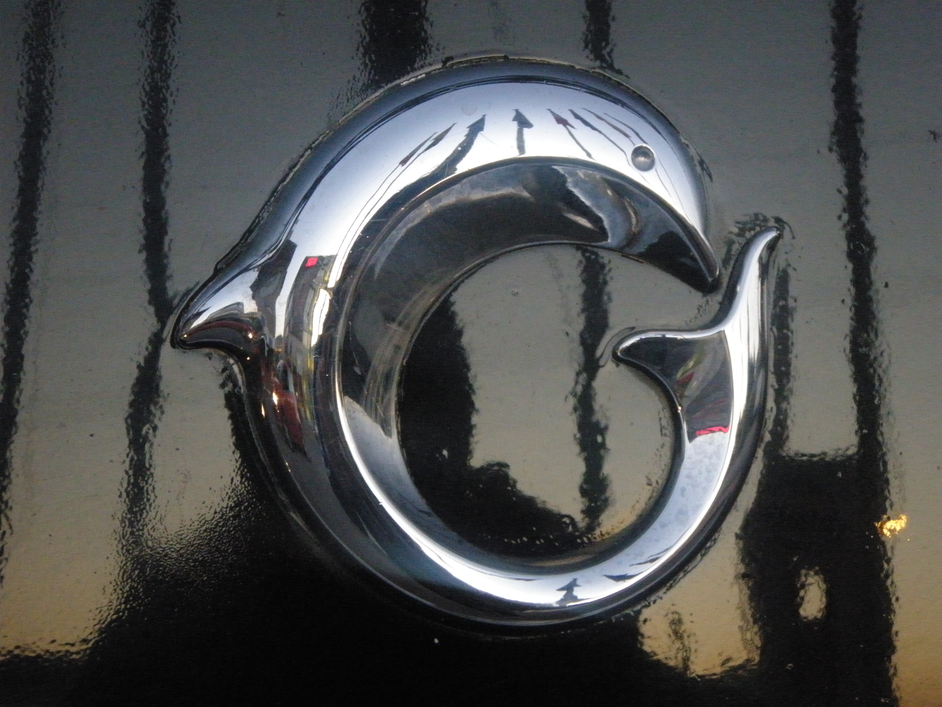 Irisbus logo.